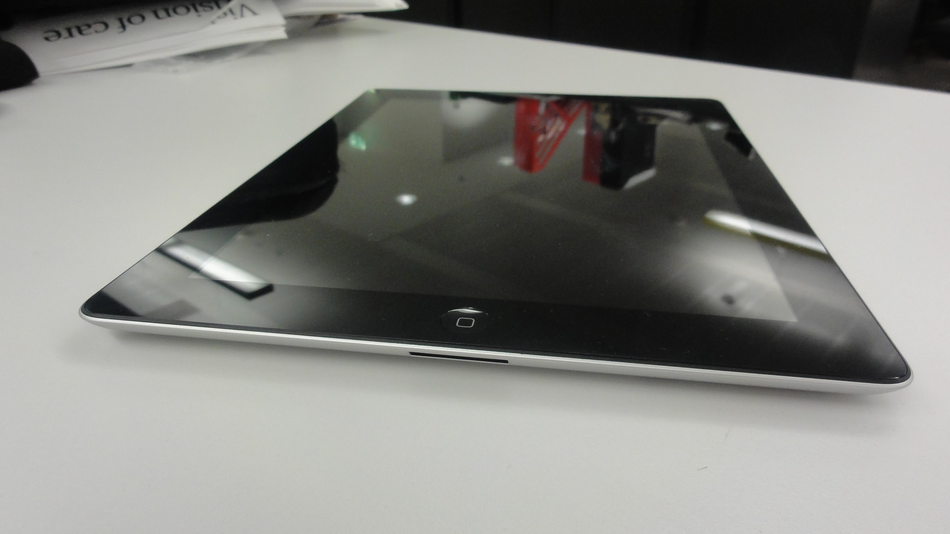 View of an iPad 2 (64Gb) from above